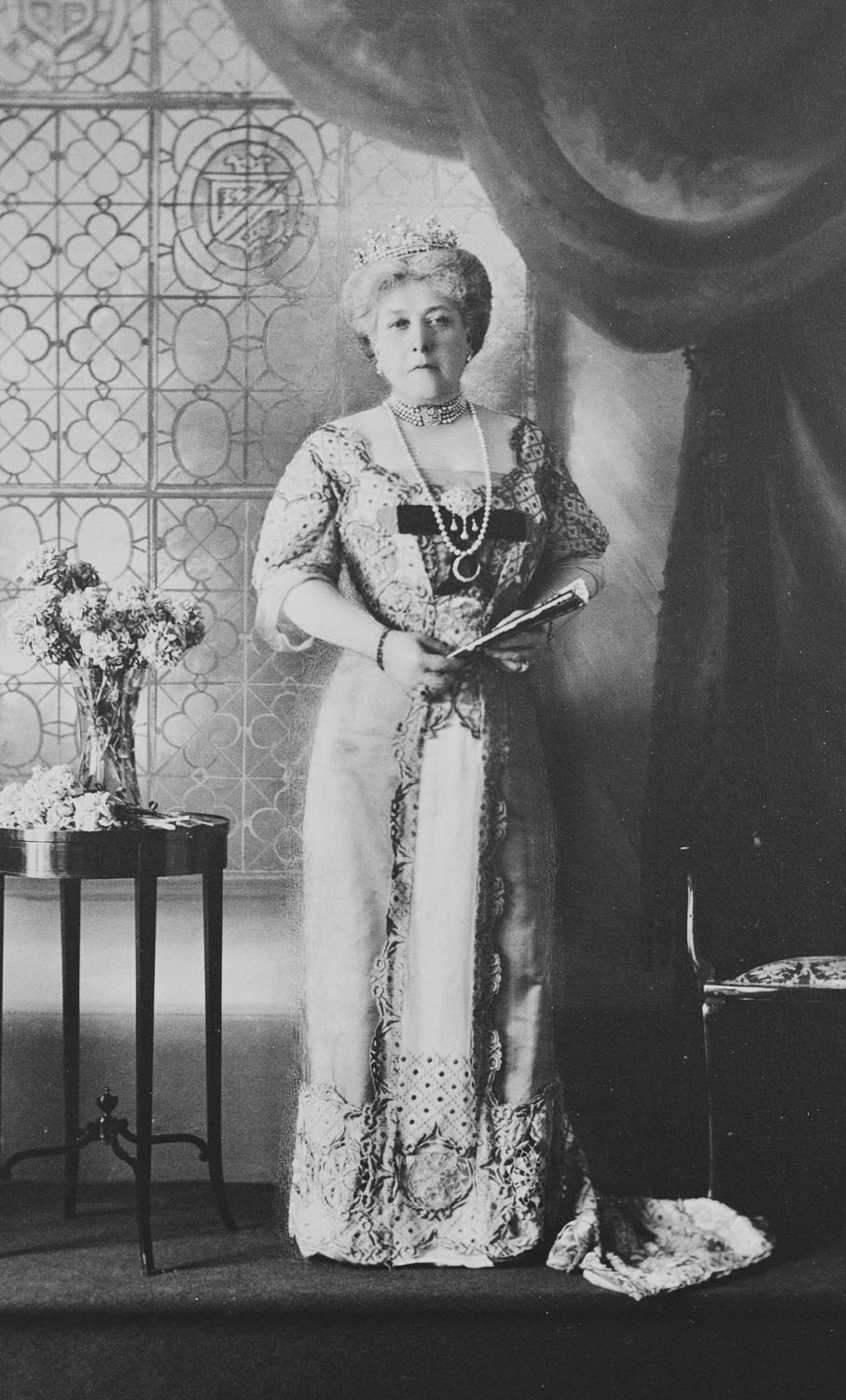 Princess Helena, Princess Christian of Schleswig-Holstein, photographed in old age.